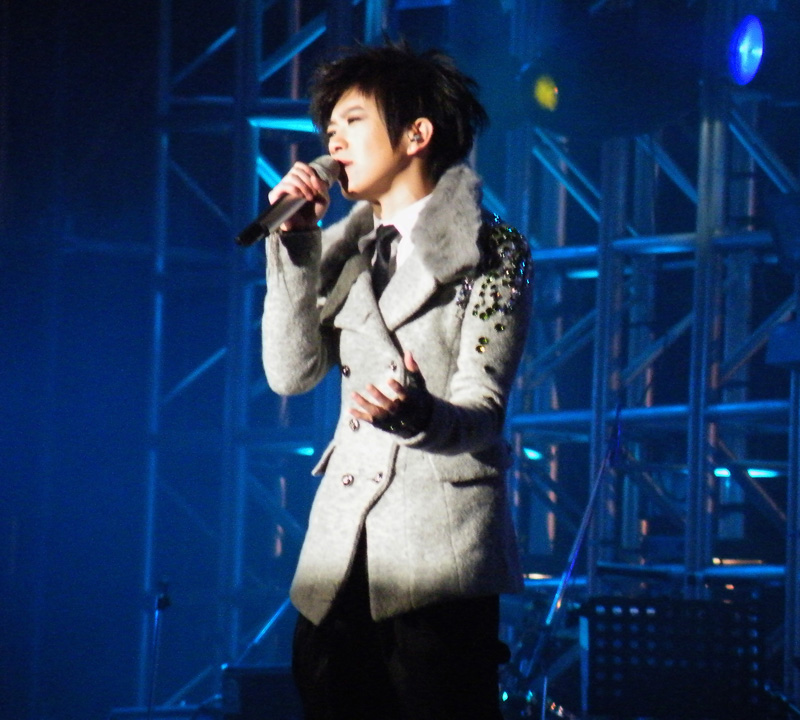 Jing Chang performed in Taipei New Year's Eve Party 2011